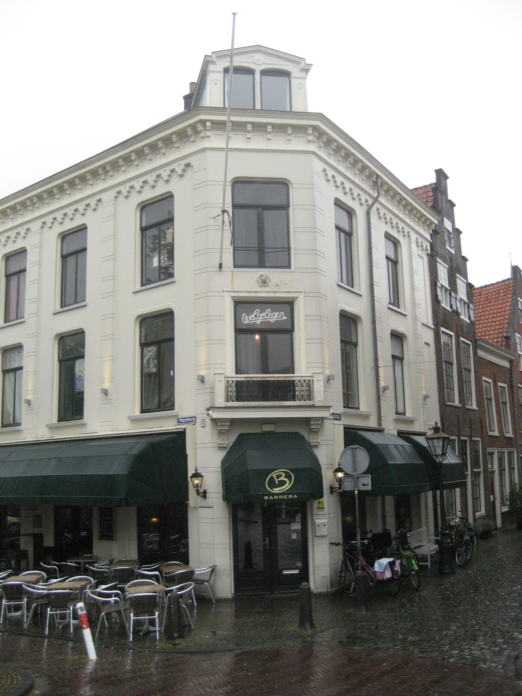 Café Barrera & Huize Welgelegen, Rapenburg 56, Leiden (The Netherlands). Student housing of Erik Hazelhoff Roelfzema ("Soldaat van Oranje")